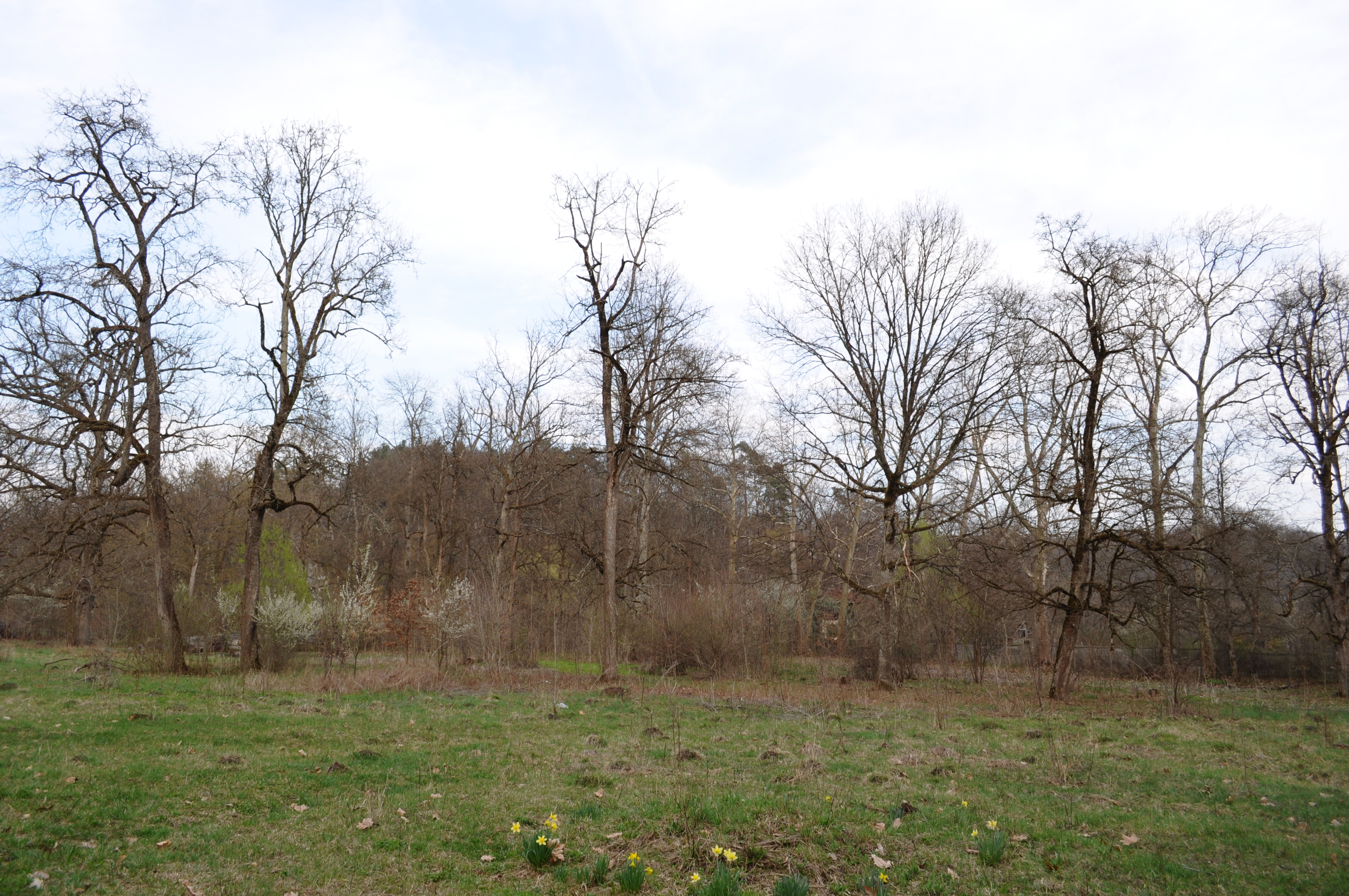 Salbek castle, Petriș, Arad county 02